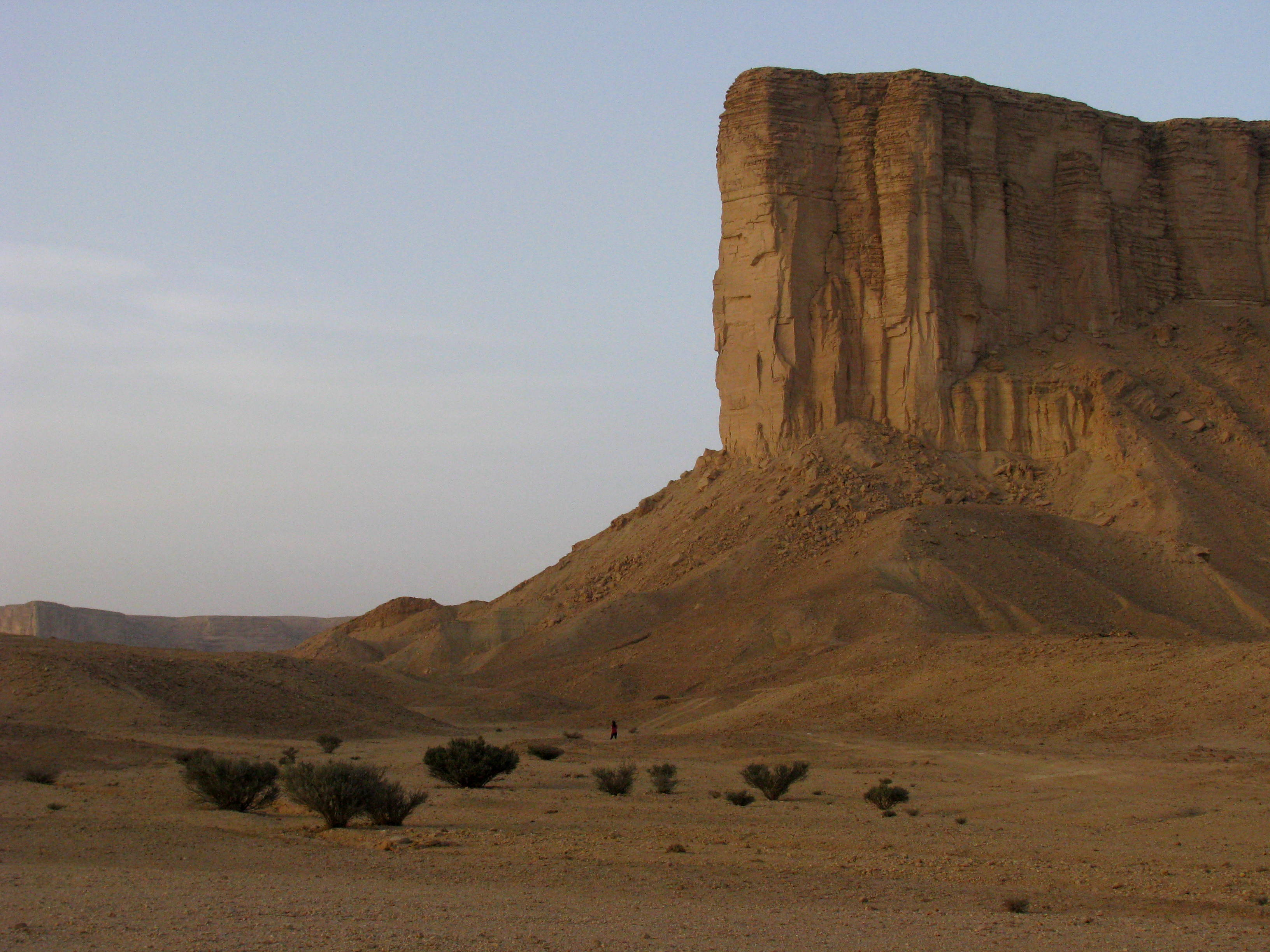 Dusk falling on the cliffs near Faisal's Pinnacle